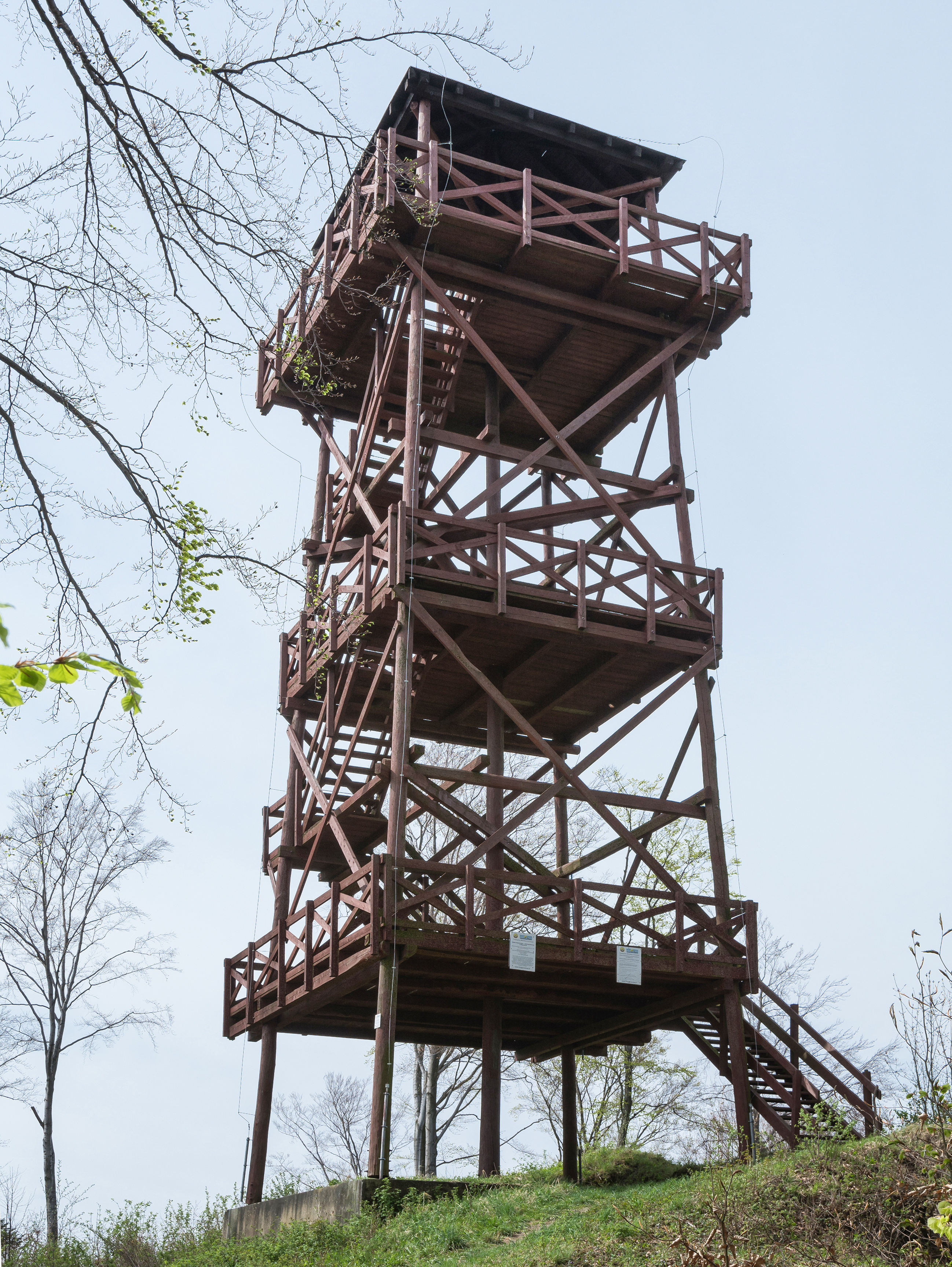 Observation tower on Wapniarka